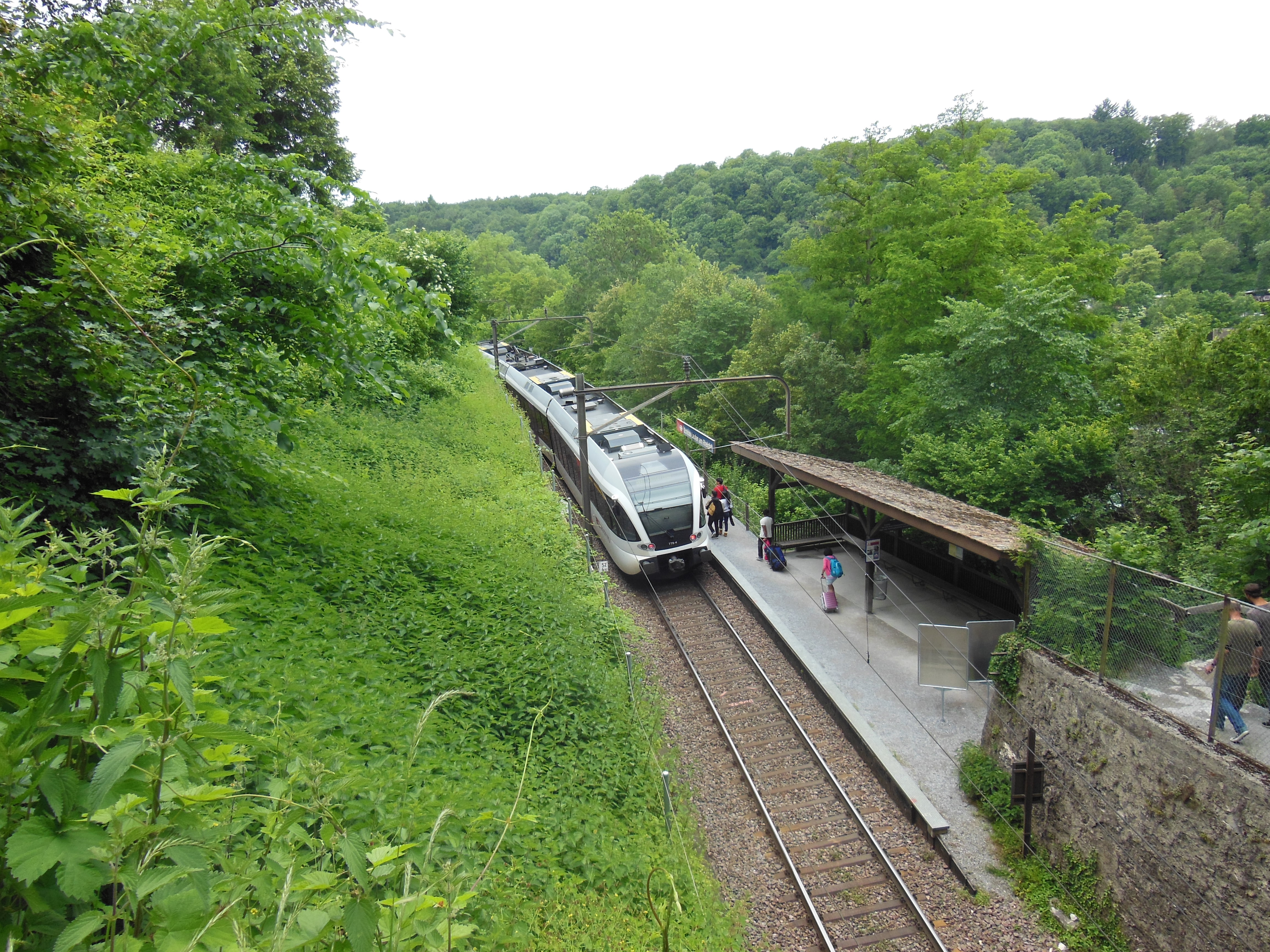 Schloss Laufen am Rheinfall railway station, as seen from the path linking the station to the castle, with a THURBO operated Stadler GTW calling. For more information, see the Wikipedia articles Schloss Laufen am Rheinfall railway station, THURBO and Stadler GTW.